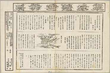 Front page of the first issue of Mainichi Shimbun as Tokyo Nichinichi Shimbun